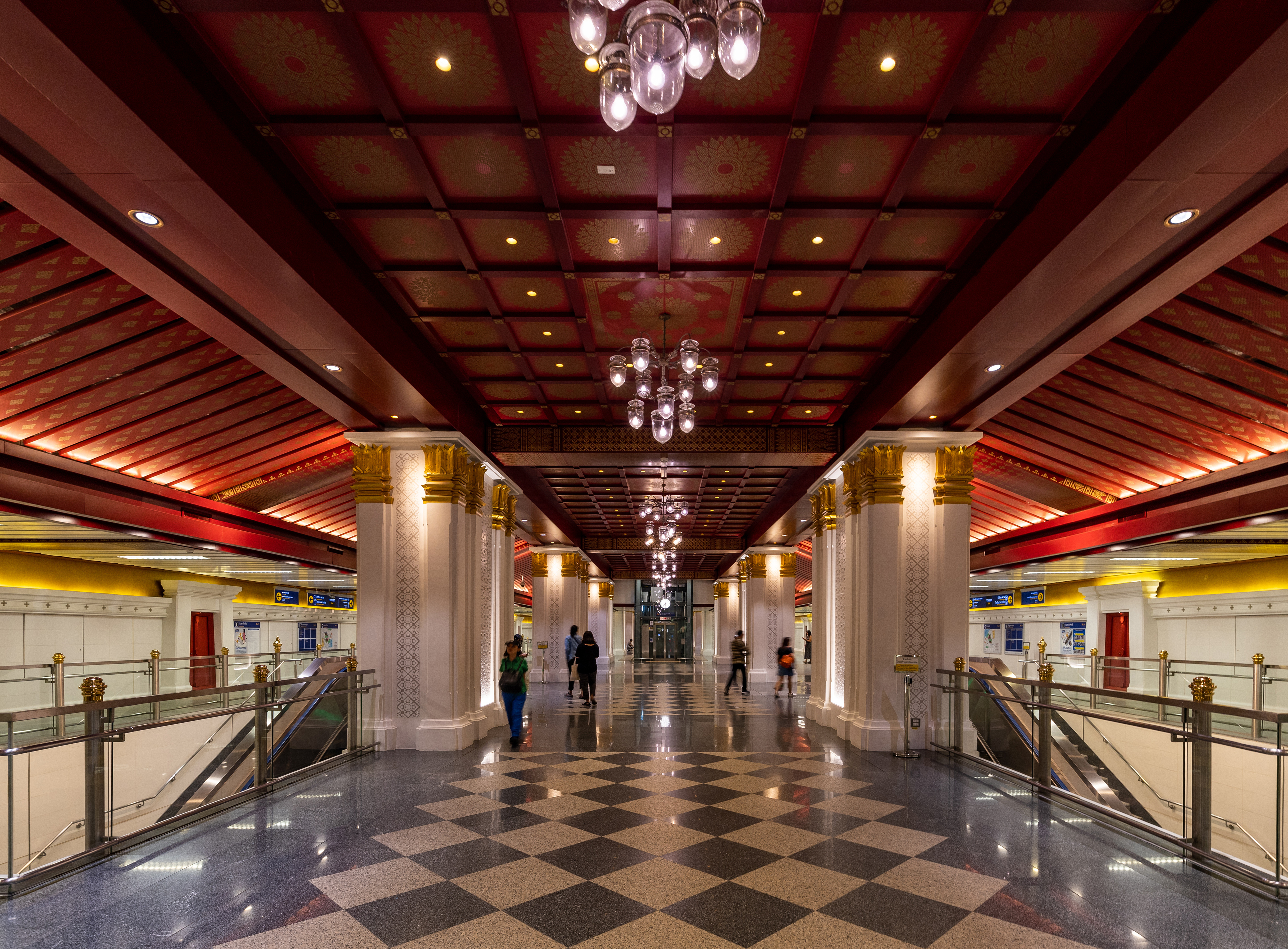 Sanam Chai station (Thai: สถานีสนามไชย) is a Bangkok MRT rapid transit station on the Blue Line, located underground under Sanam Chai Road located in Bangkok, Thailand. During the excavation of the site to build the station, multiple historical artifacts were found, such as coins from the reign of King Mongkut and King Chulalongkorn.